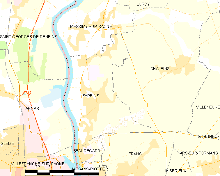 Map of French commune: Fareins Map commune FR insee code 01157.png